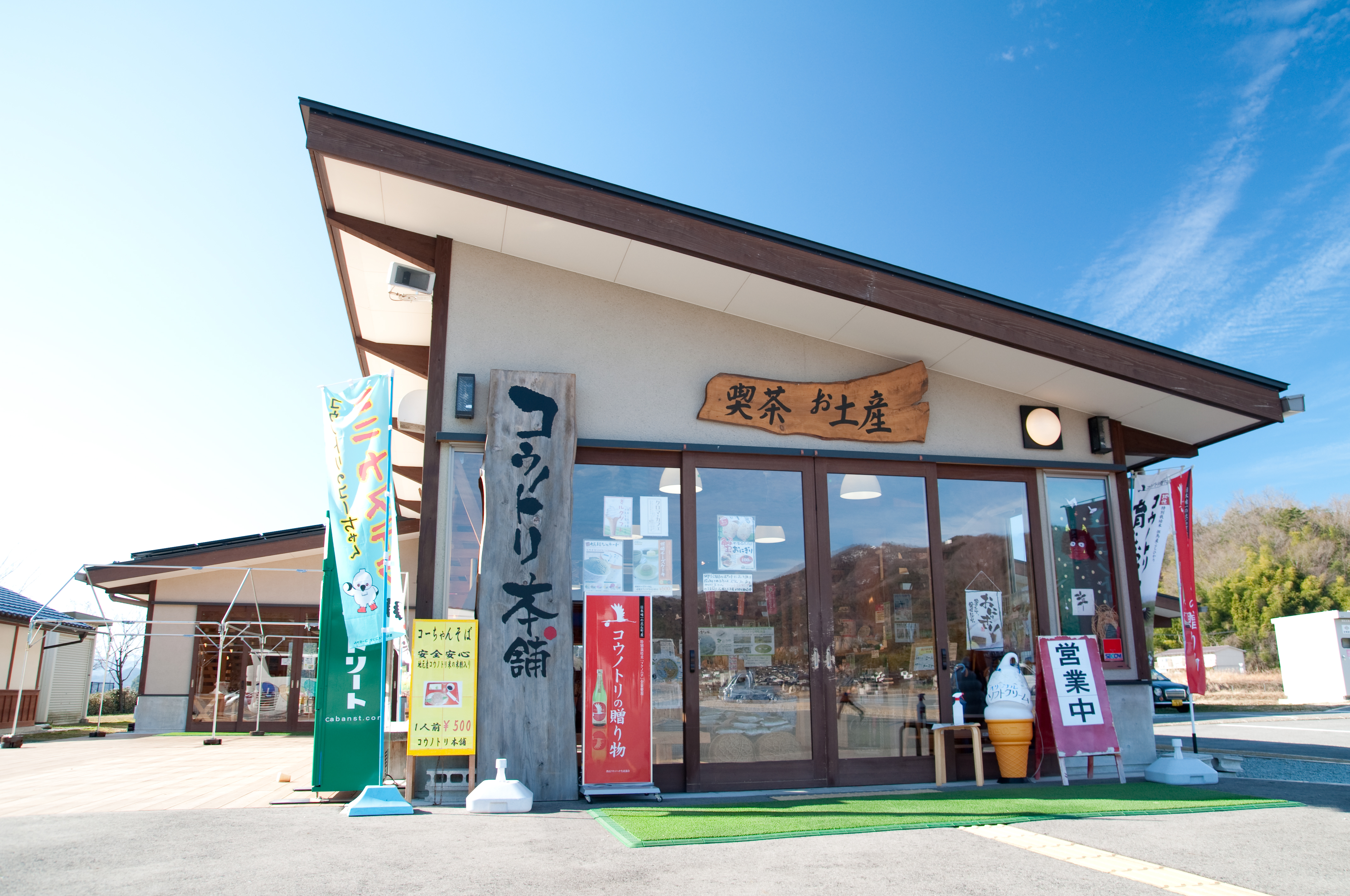 Stork's village park. Shopping center.